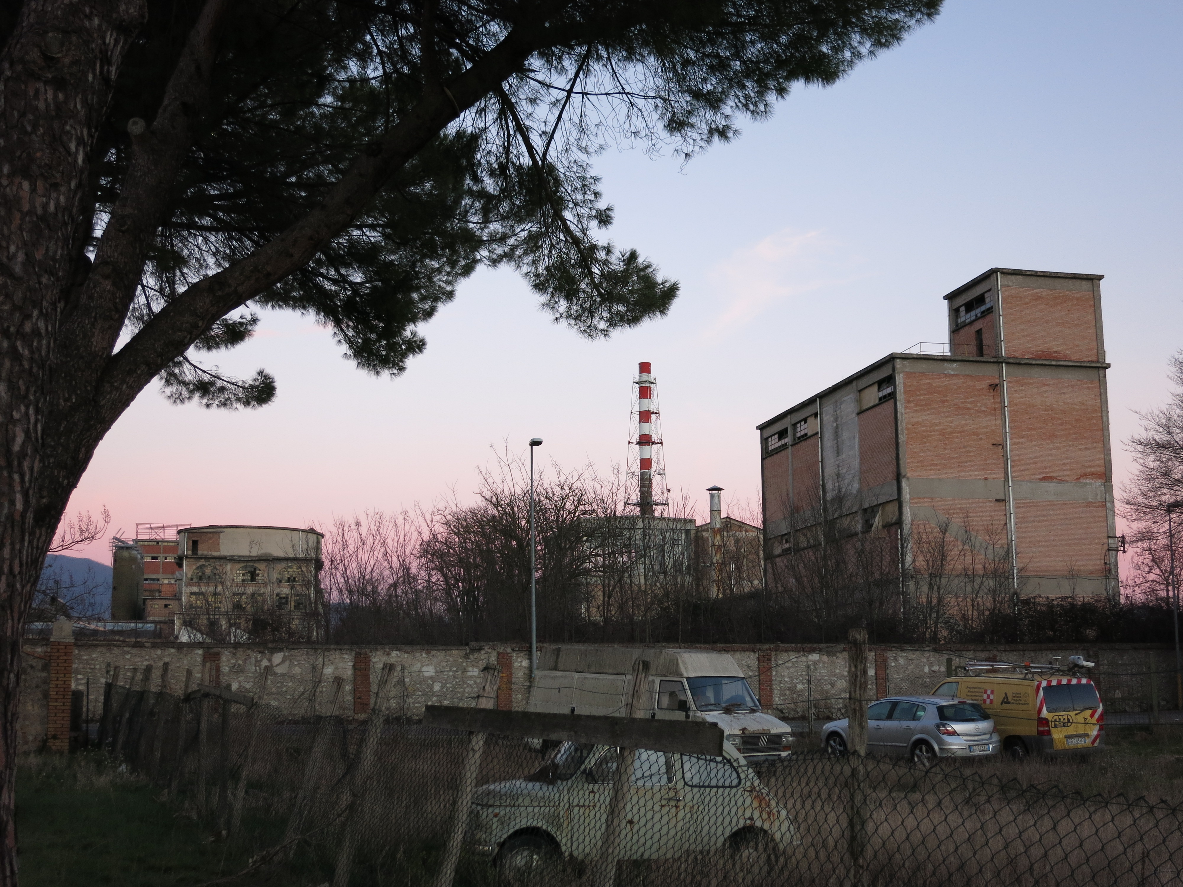 Former SNIA Viscosa textile plant in Rieti, Italy, as seen from Molino della Salce street